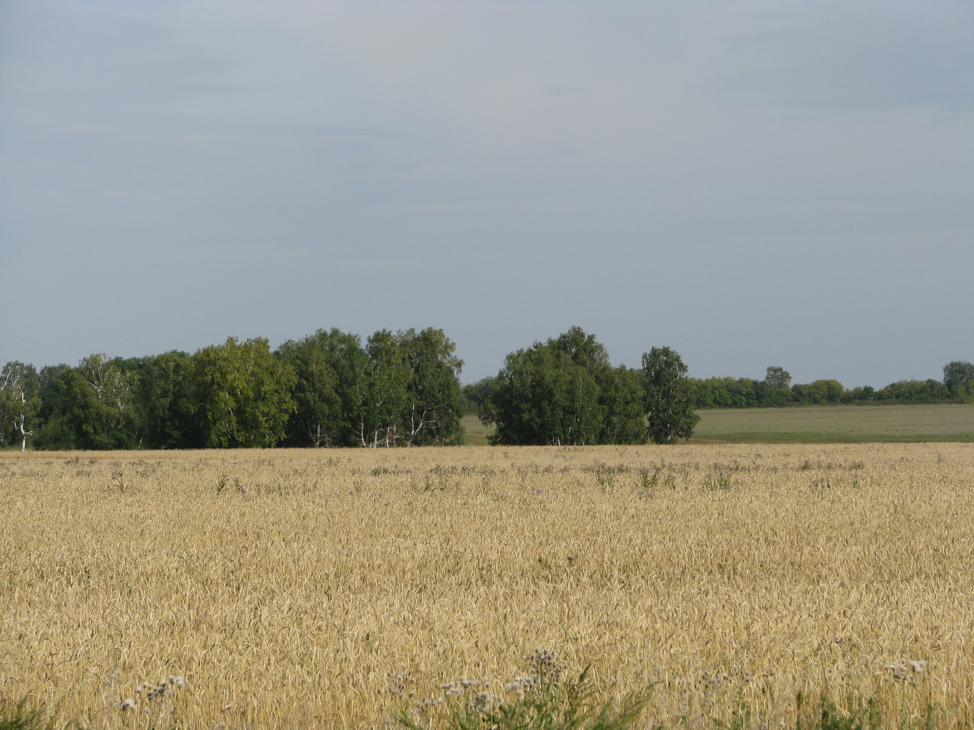 Forest patches in steppe in Altai region